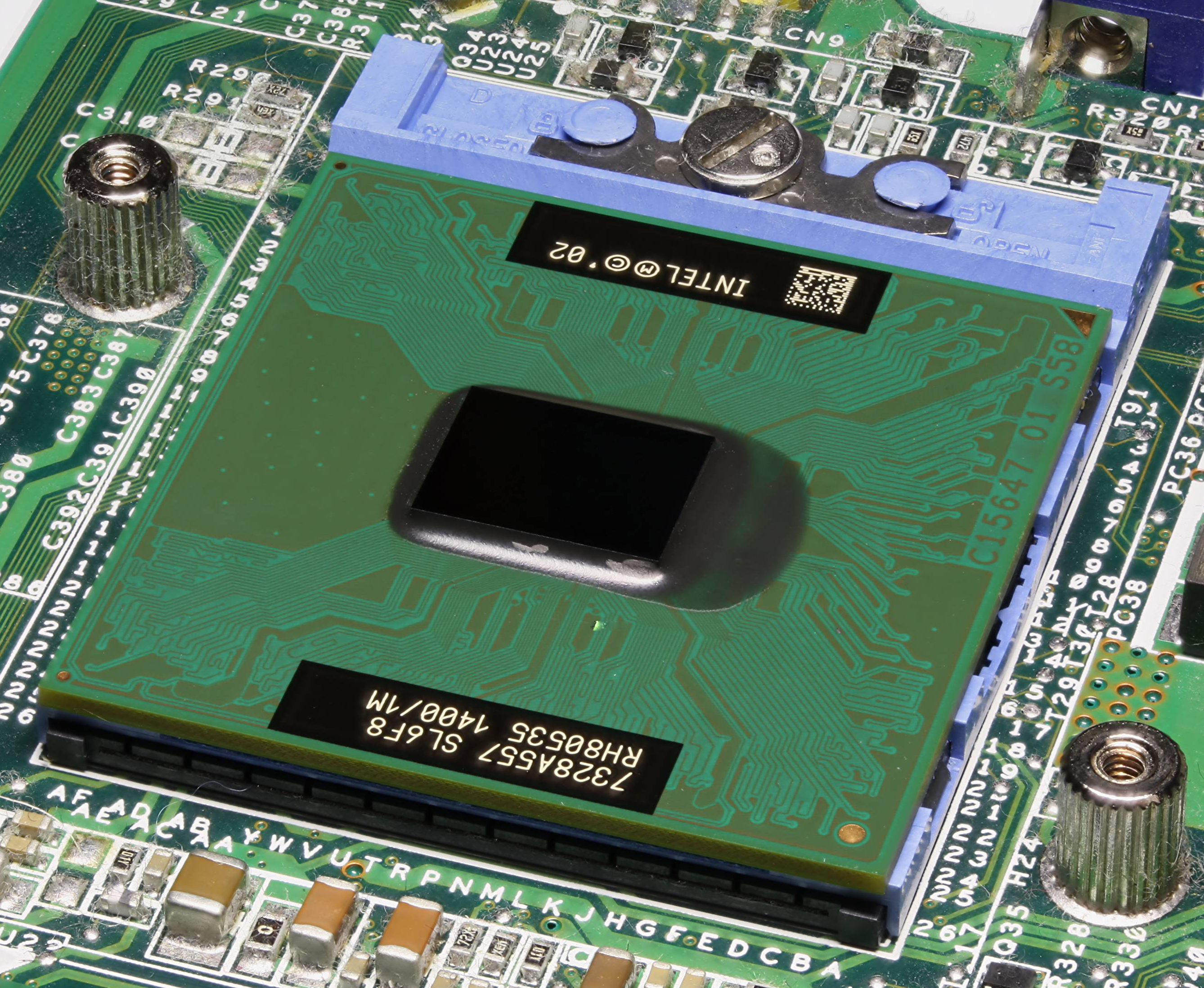 An open Socket 479 with an inserted Intel Pentium M 1.4 (RH80535GC0171M) CPU